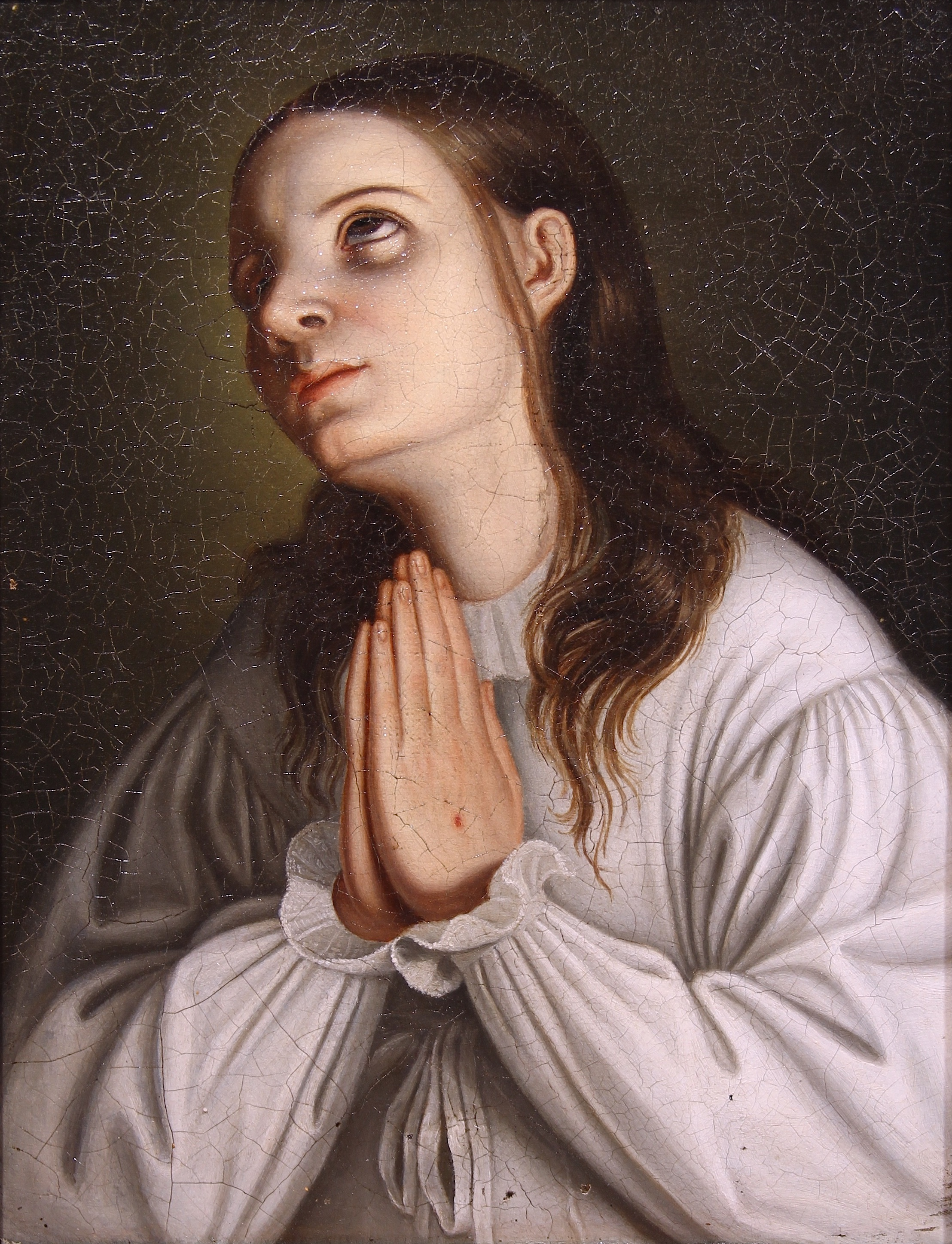 Maria von Mörl, Mystic, Stigmatic, Victim for Sinners Painted by Philipp Veit